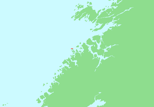 Locator map of Villa, Nord-Trøndelag, Norway